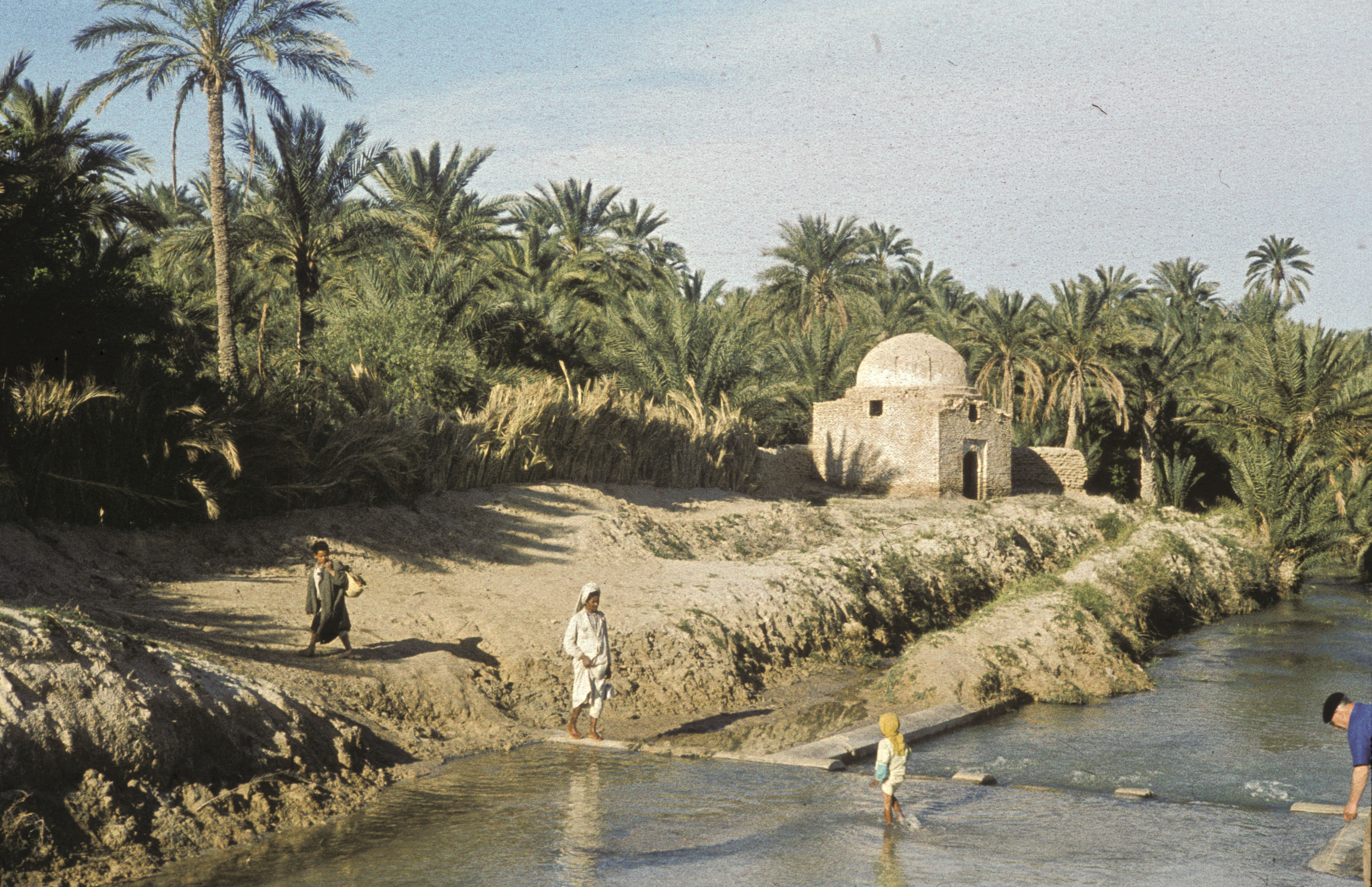 Tunisia (1960, locality unknown)